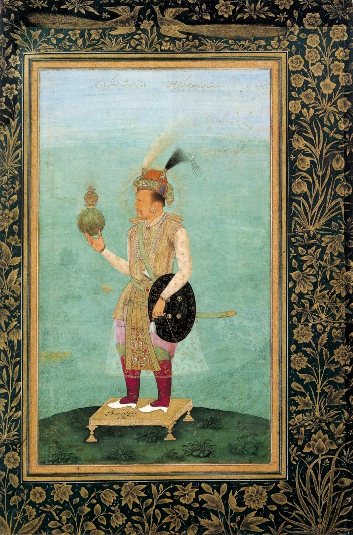 Abu'l Hasan, Jahangir Suppressing Prince Khurram's Rebellion, ca 1623, Freer Gallery of Art, Washington DC